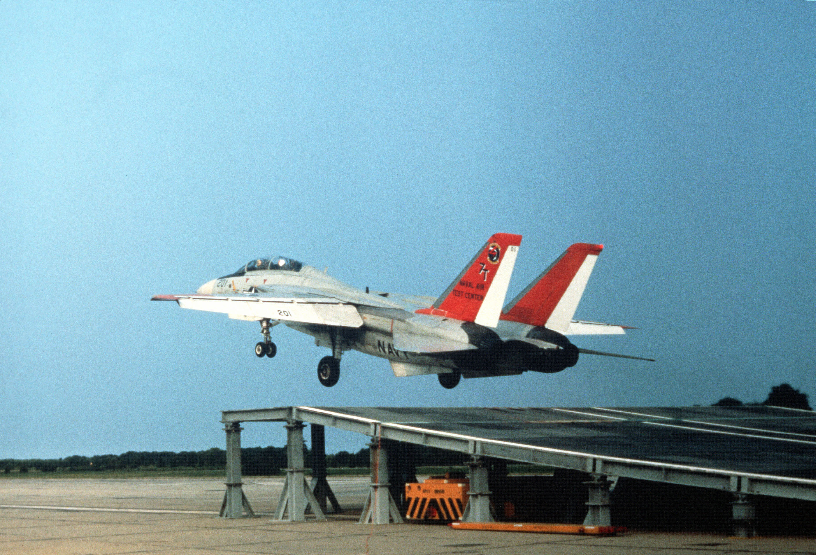 A left side view of an F-14A Tomcat aircraft taking off from a ramp, raised nine degrees, during "ski jump" feasibility tests.